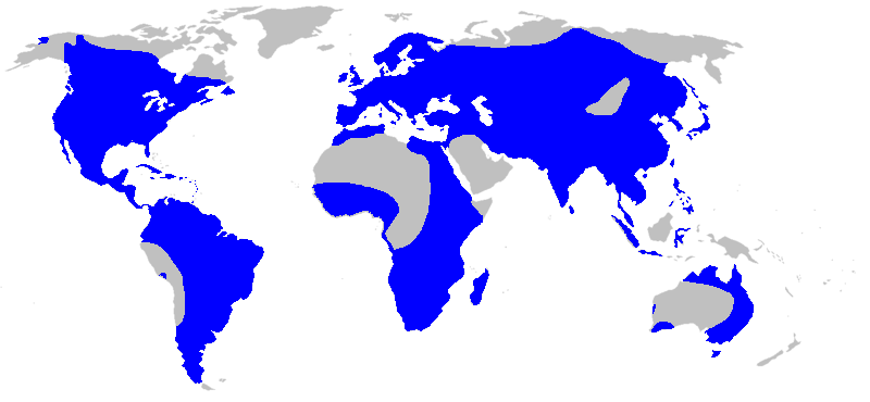 Plant family Alismataceae distribution map